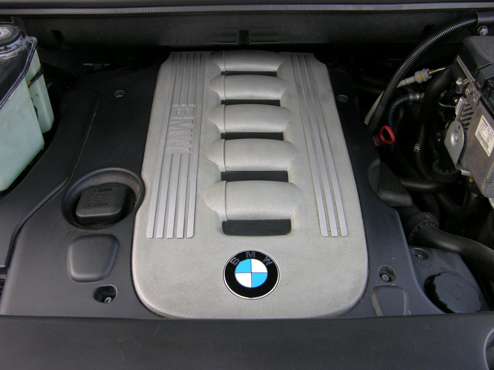 This car is for sale. Please contact us at or visit for more information.